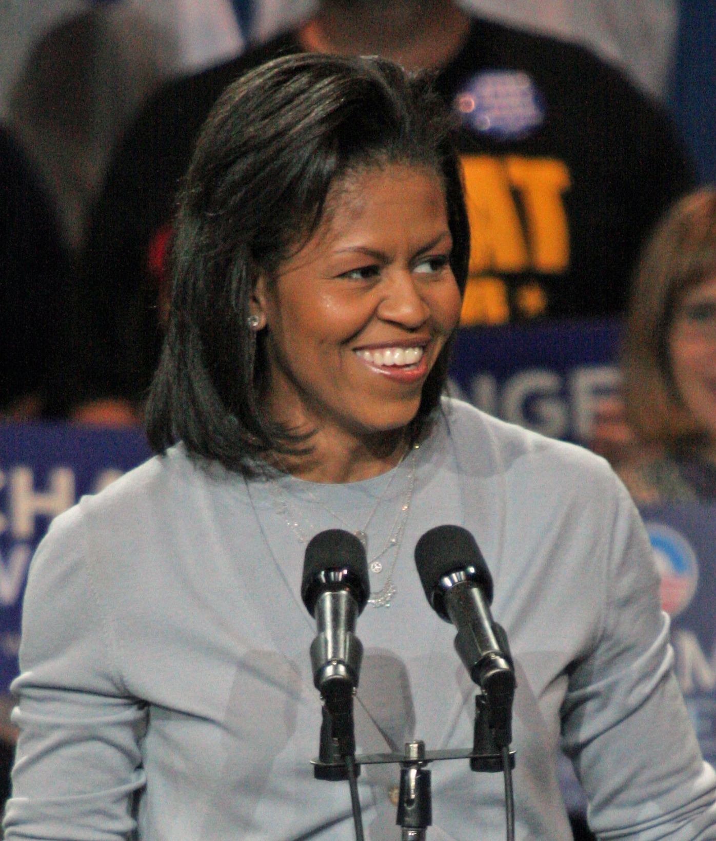 Michelle Obama, speaking in Jacksonville, Florida